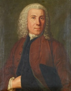 Depicted person: Abraham Hülphers the Older